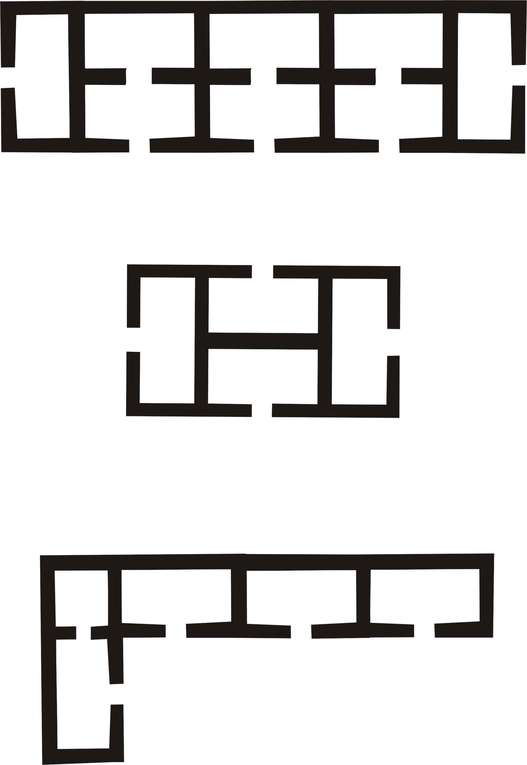 Expanded Puuc buildings.